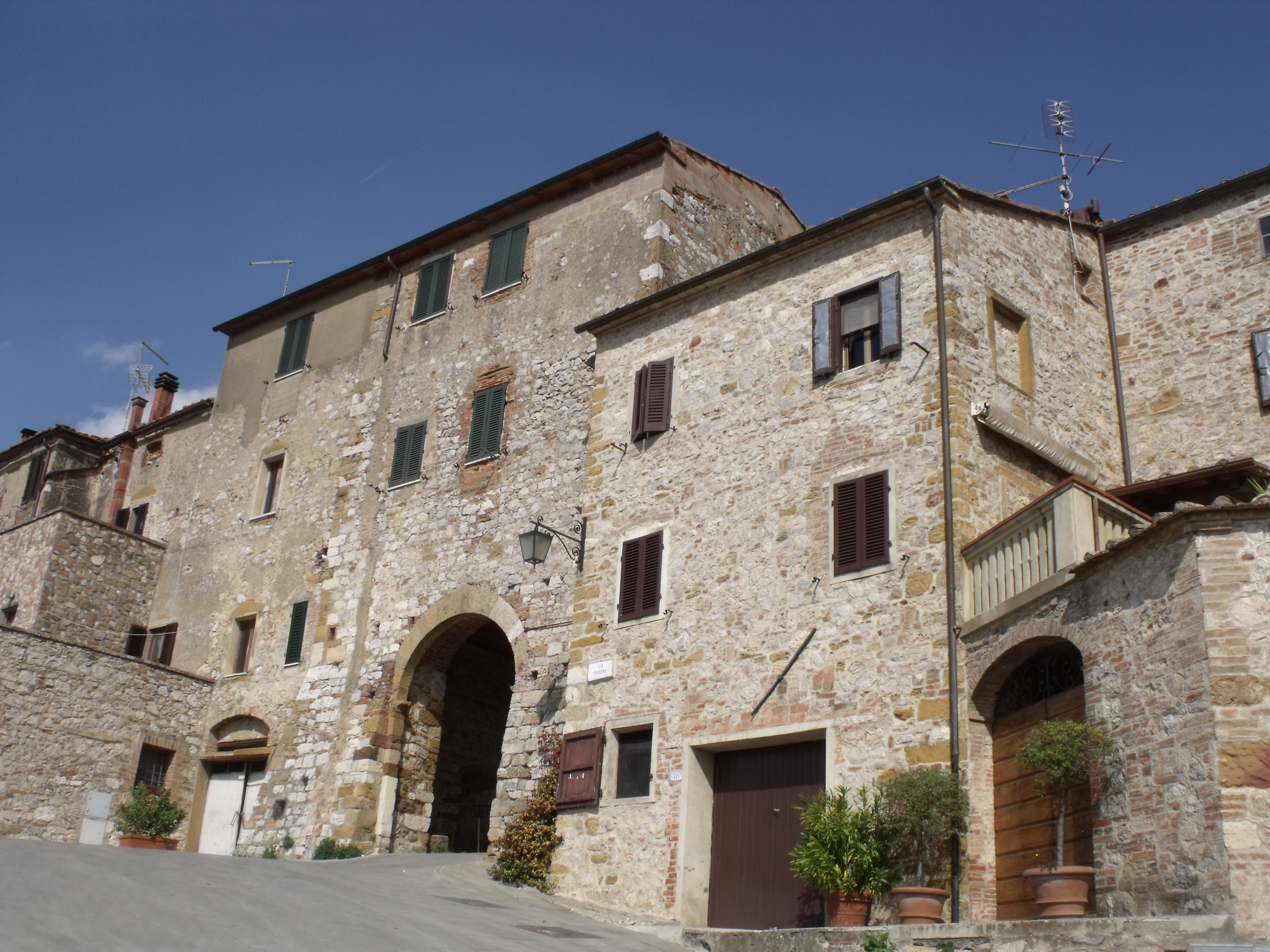 Defensive Gate Porta al Sole in Trequanda, Province of Siena, Tuscany, Italy